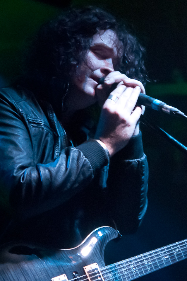 Taking of this photo was in cooperation with Rock-Serwis Publishing House (homepage) Anathema podczas trasy koncertowej w Polsce 6 października 2012 w Mega Clubie w Katowicach